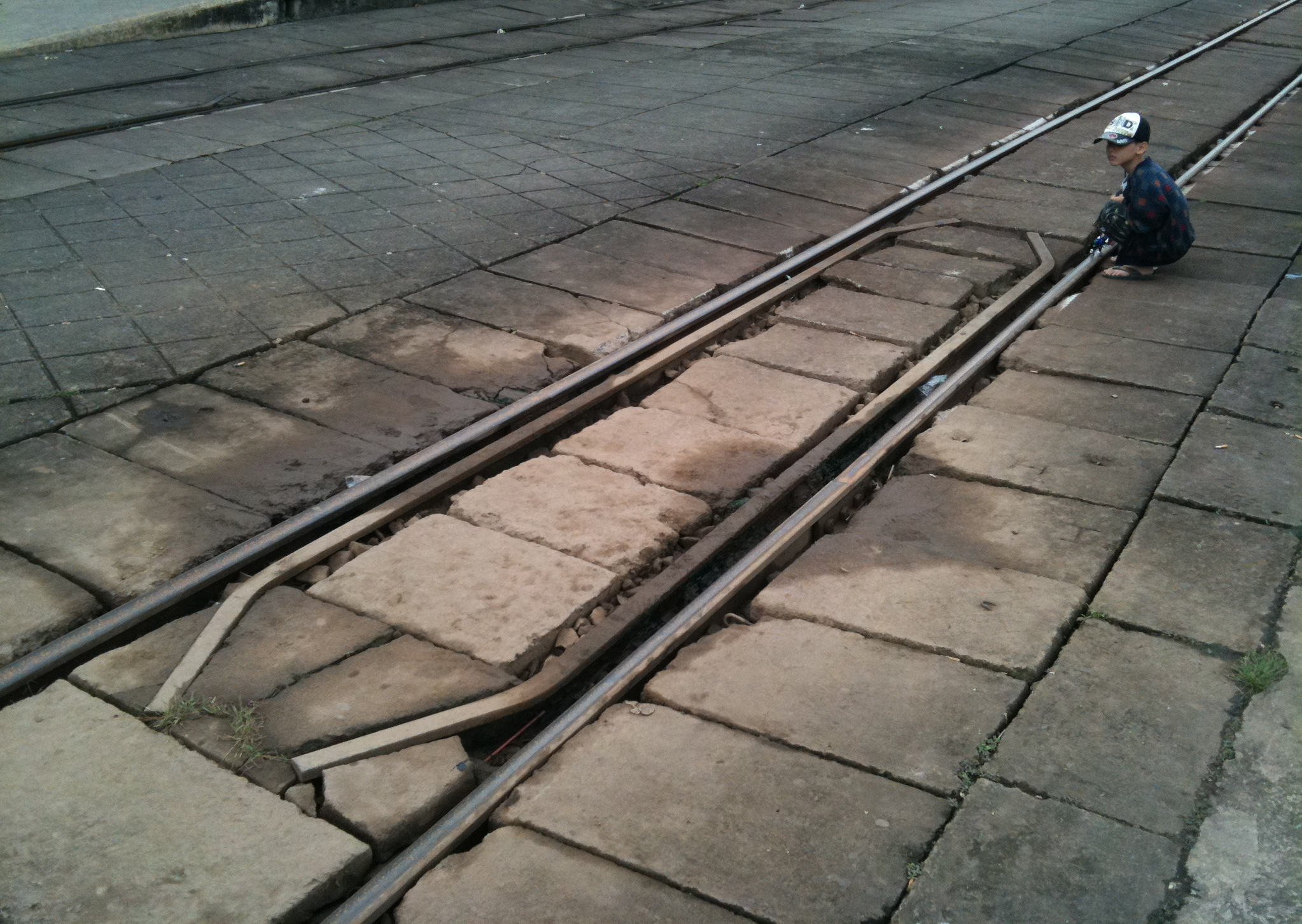 A young boy crouches next to a railway track at Dieu Tri Railway Station, Binh Dinh Province, Vietnam, where guard rails are laid to prevent derailment.